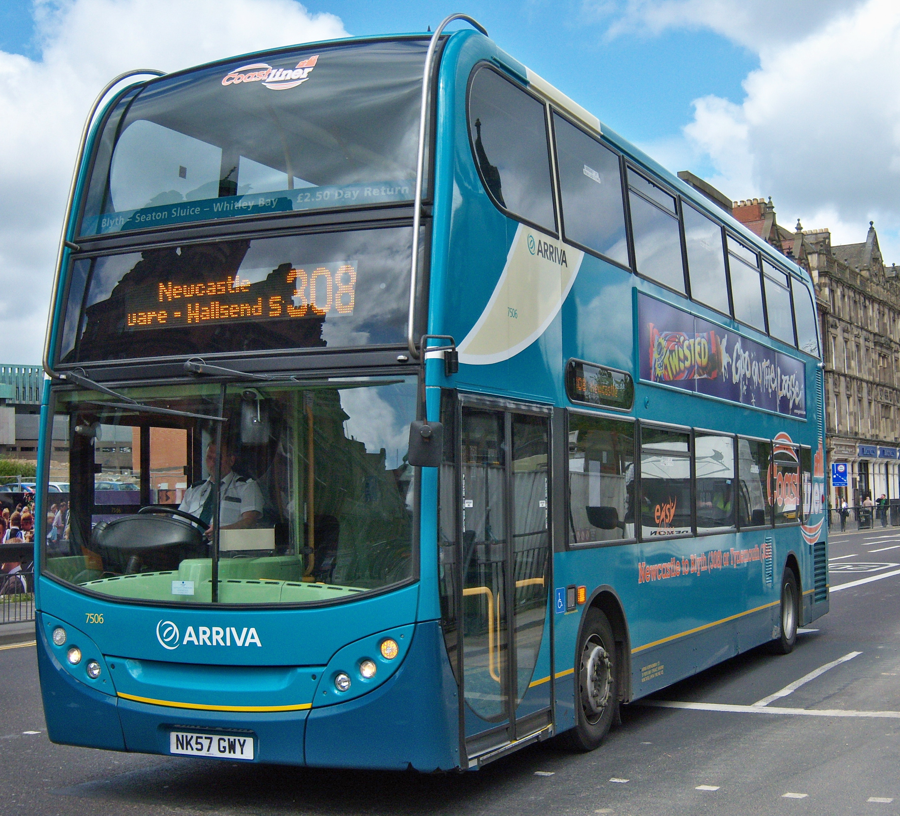 Arriva North East 7506 (NK57 GWY), an Alexander Dennis Enviro400, in Newcastle upon Tyne, on route 308.